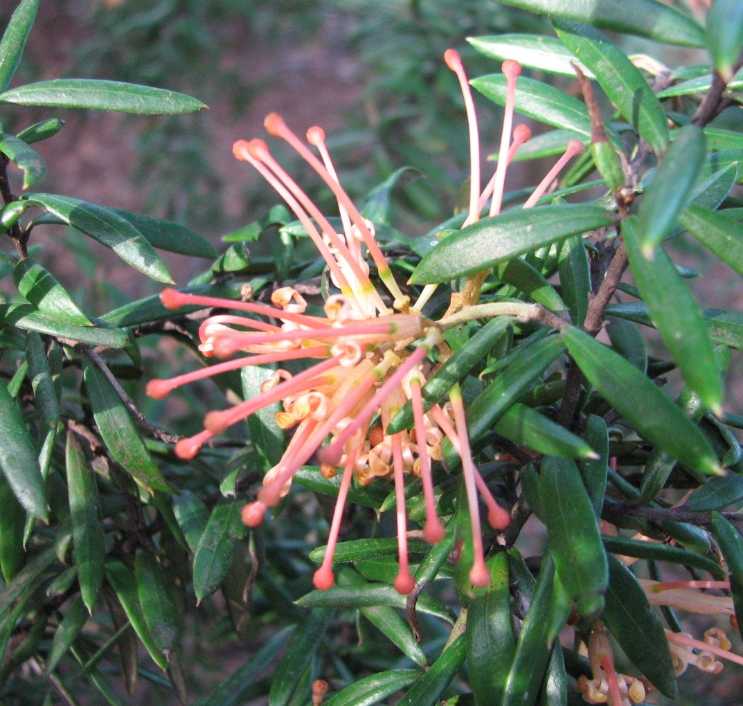 Grevillea 'Poorinda Queen', Maranoa Gardens, Balwyn, Victoria, Australia